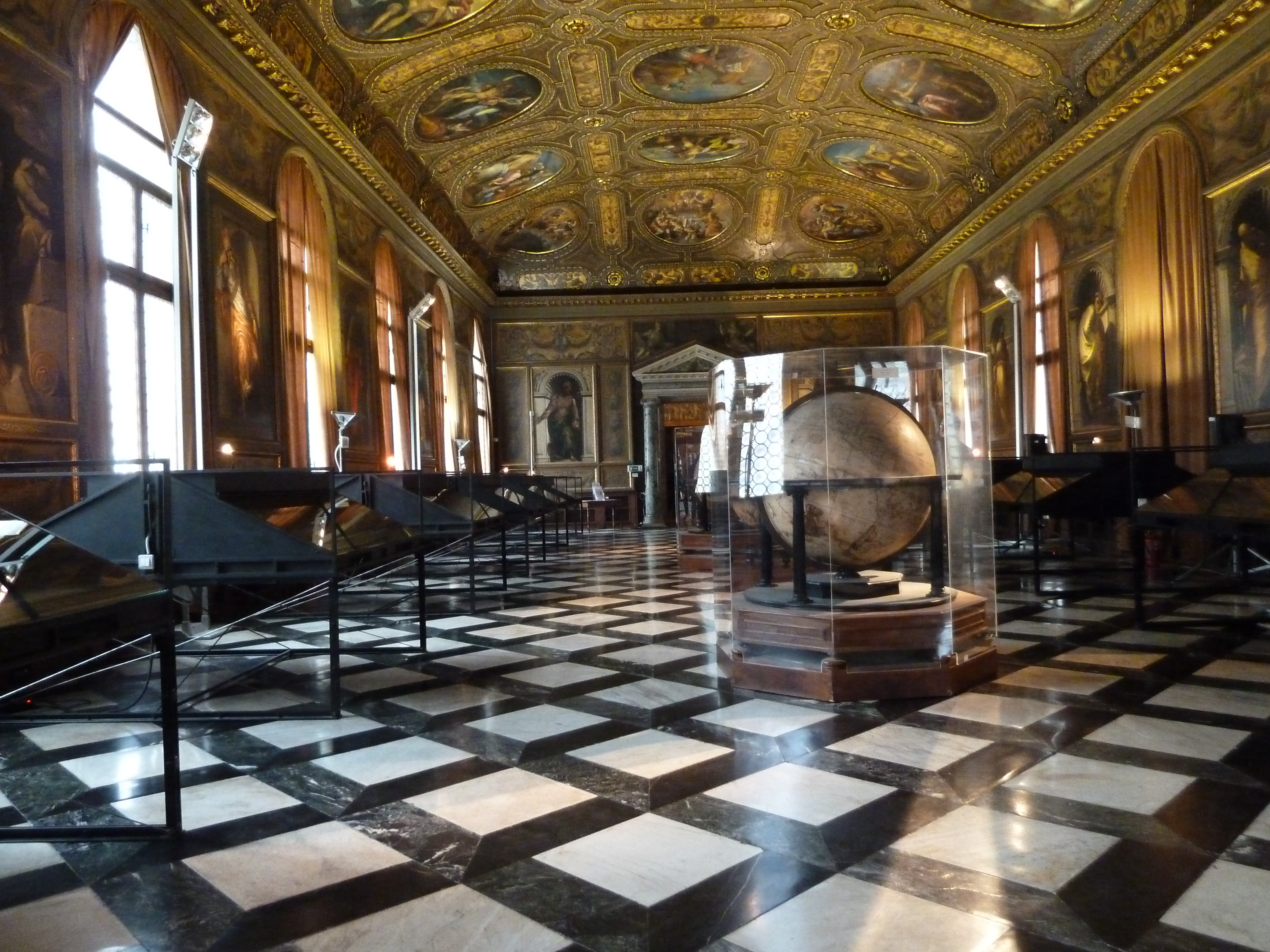 Monumental room libreria marciana